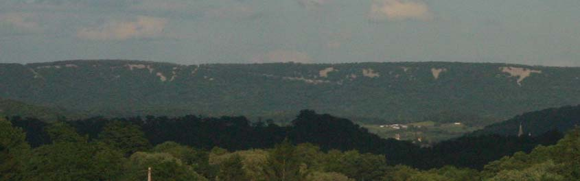 Boulder fields (gray treeless areas) near the summit of Bald Eagle Mountain, Blair County, Pennsylvania. Photo by Jim Stuby 21:10, 2 July 2007 (UTC).